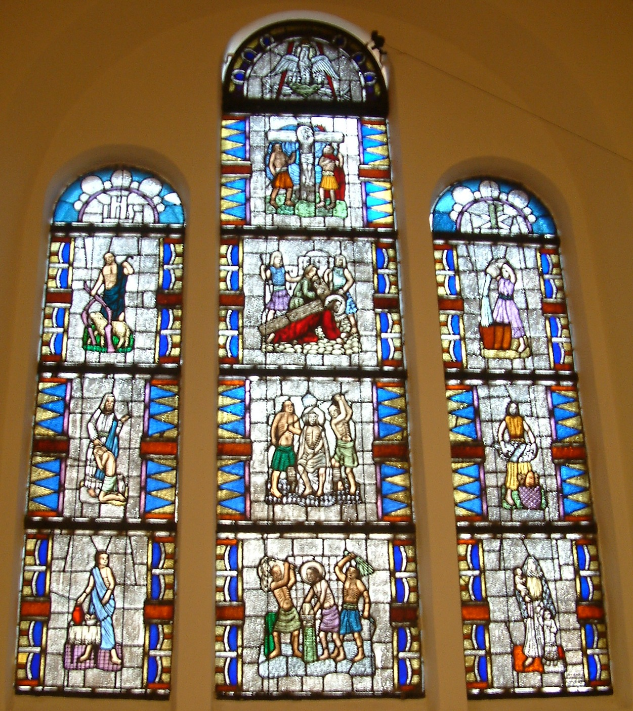 Church of Mother of Sorrow in Poznań, Stained glass